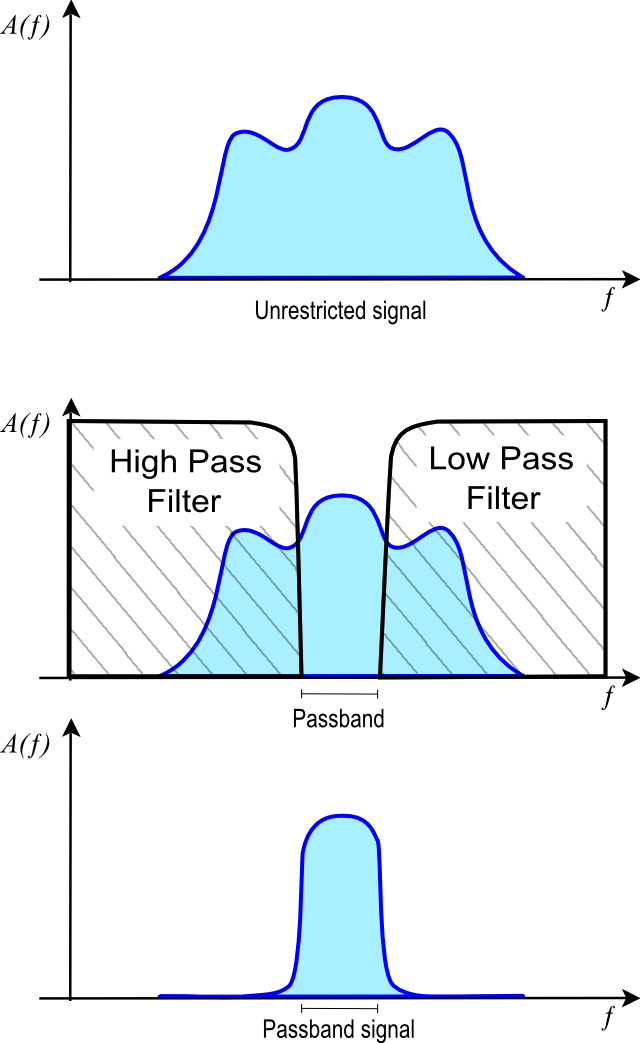 Passband relationship to filters